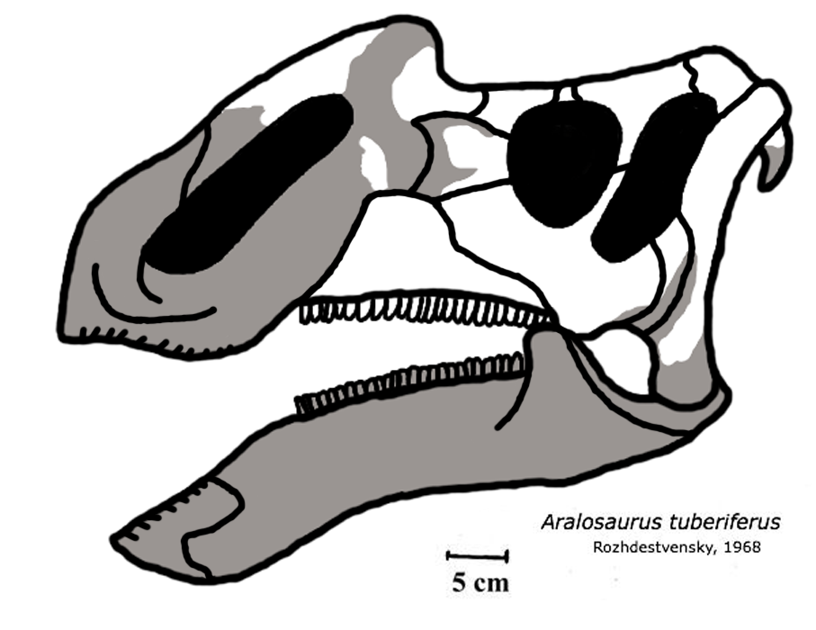 Skull restoration of Aralosaurus tuberiferus. Based off [1] and [2]